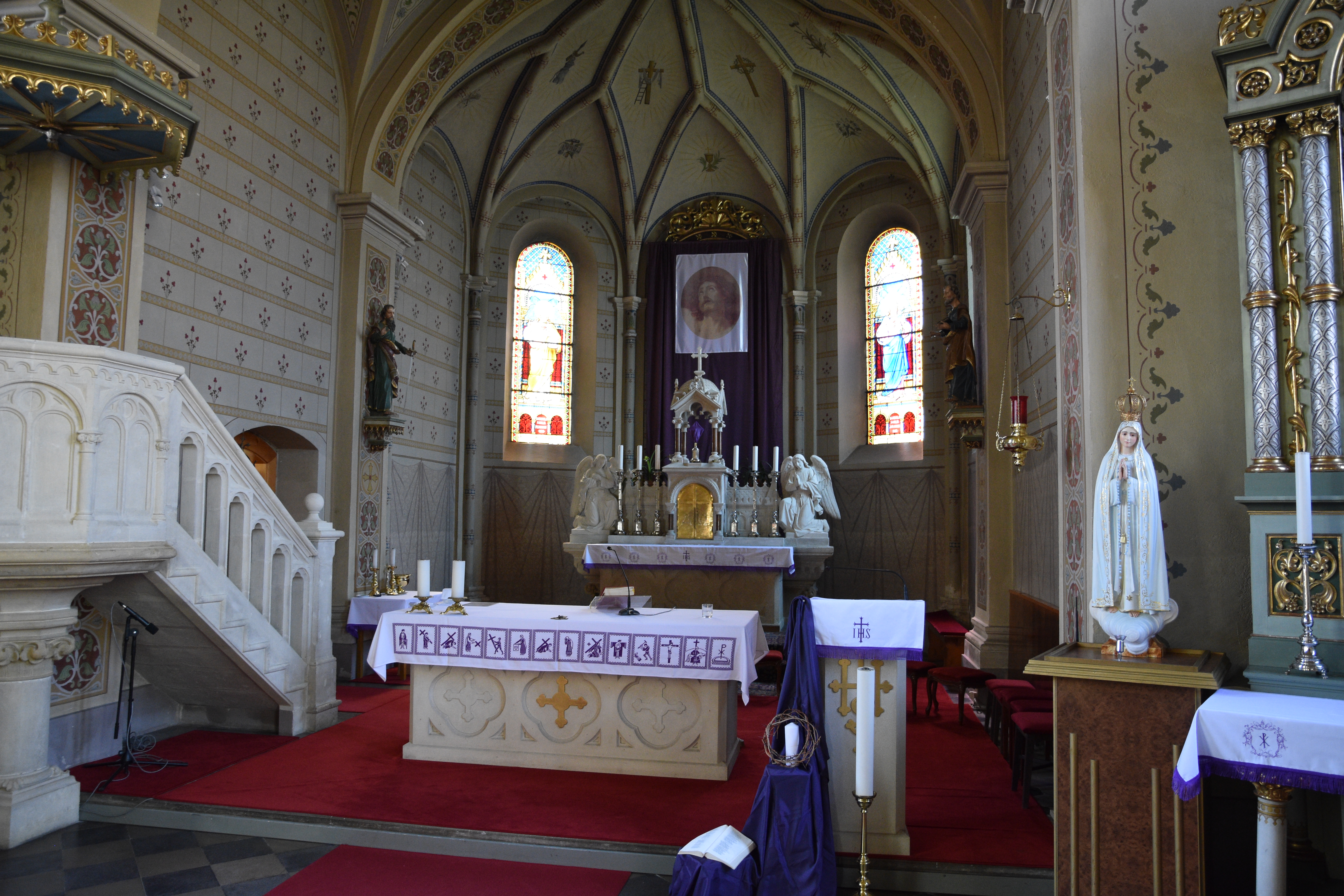 Church Unterpullendorf - Interior